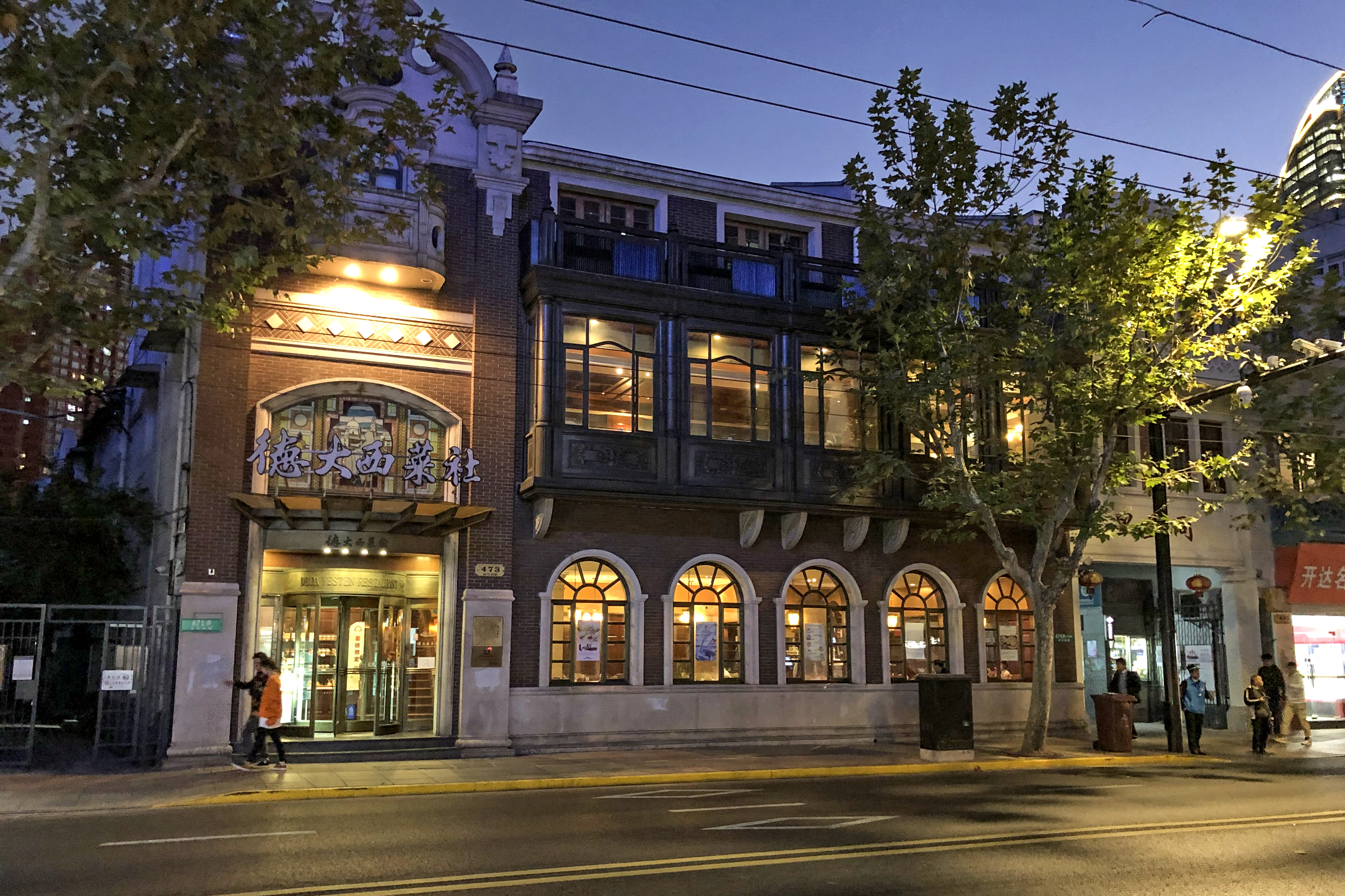 Similar style to TPK, but the price is lower.